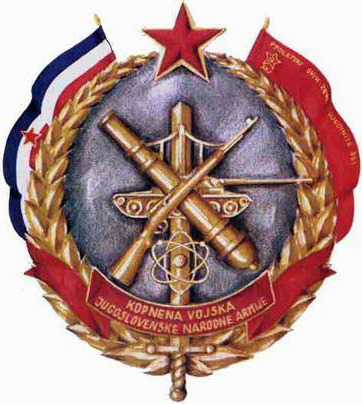 Yugoslav Peoples Aemy (JNA) Ground Forces (KoV) logo.